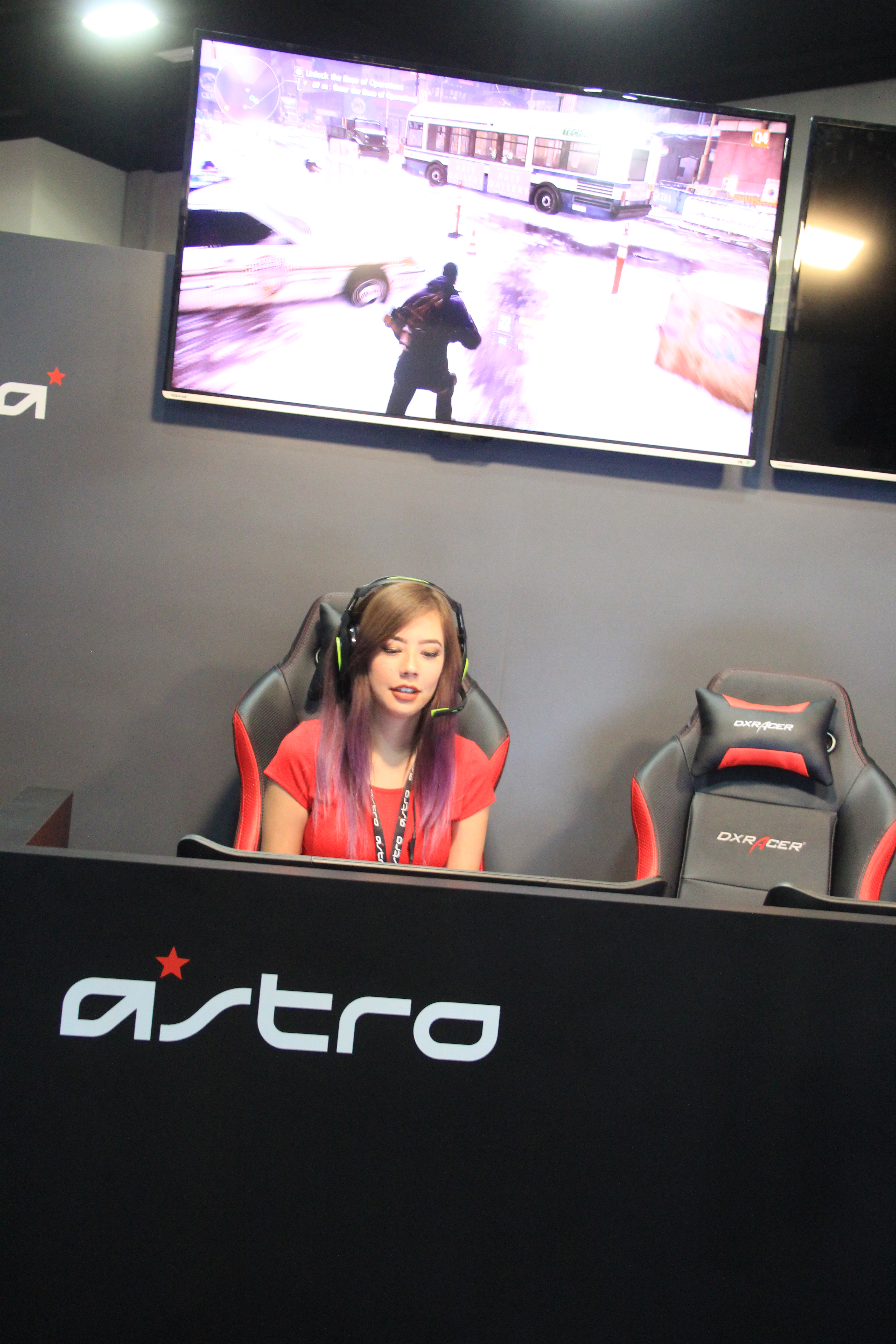 IMG_5446 Taken at PAX South 2016.